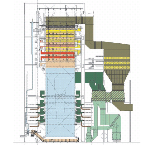 A steam boiler of a modern power station